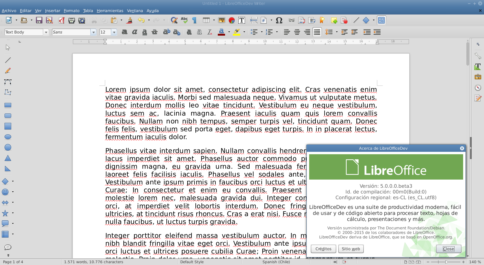 LibreOfficeDev 5.0 beta3 Writer screenshot with Tango! theme and Lorem Ipsum text, under Debian GNU-Linux.